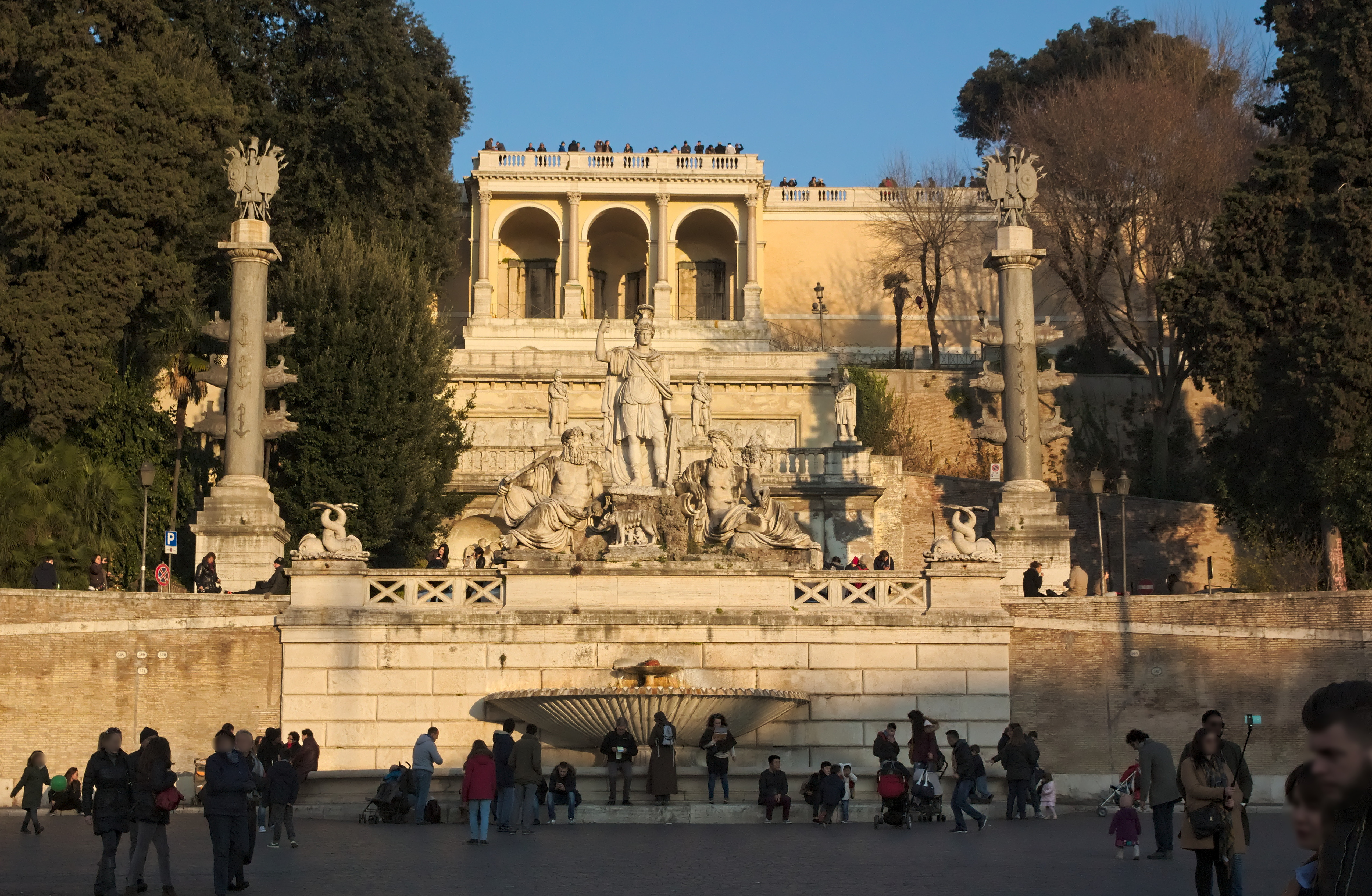 Piazza del Popolo, Rome, Italy.